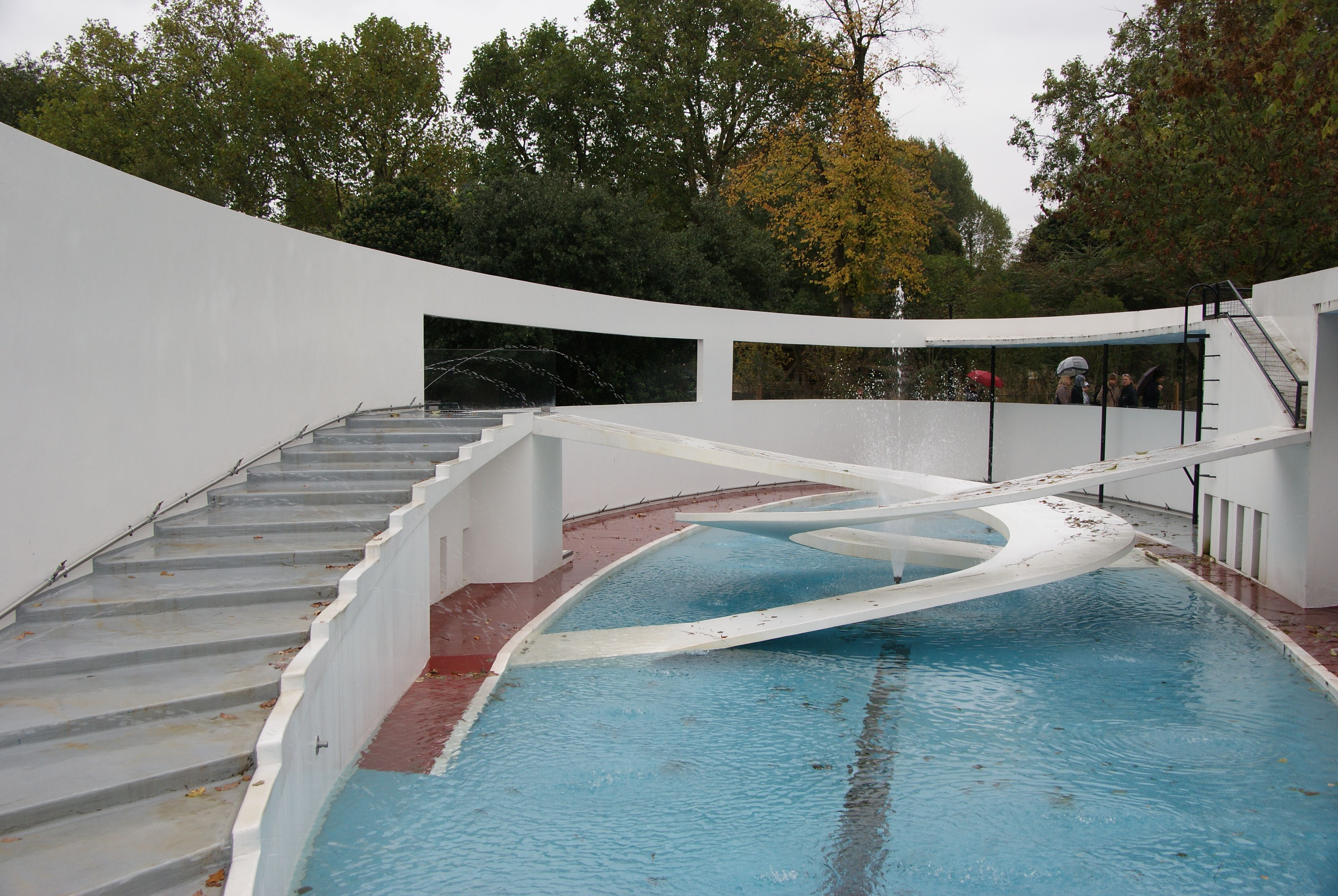 Grade 1 listed Penguin pool, London Zoo, England. Now a water feature and not used to keep Penguins.